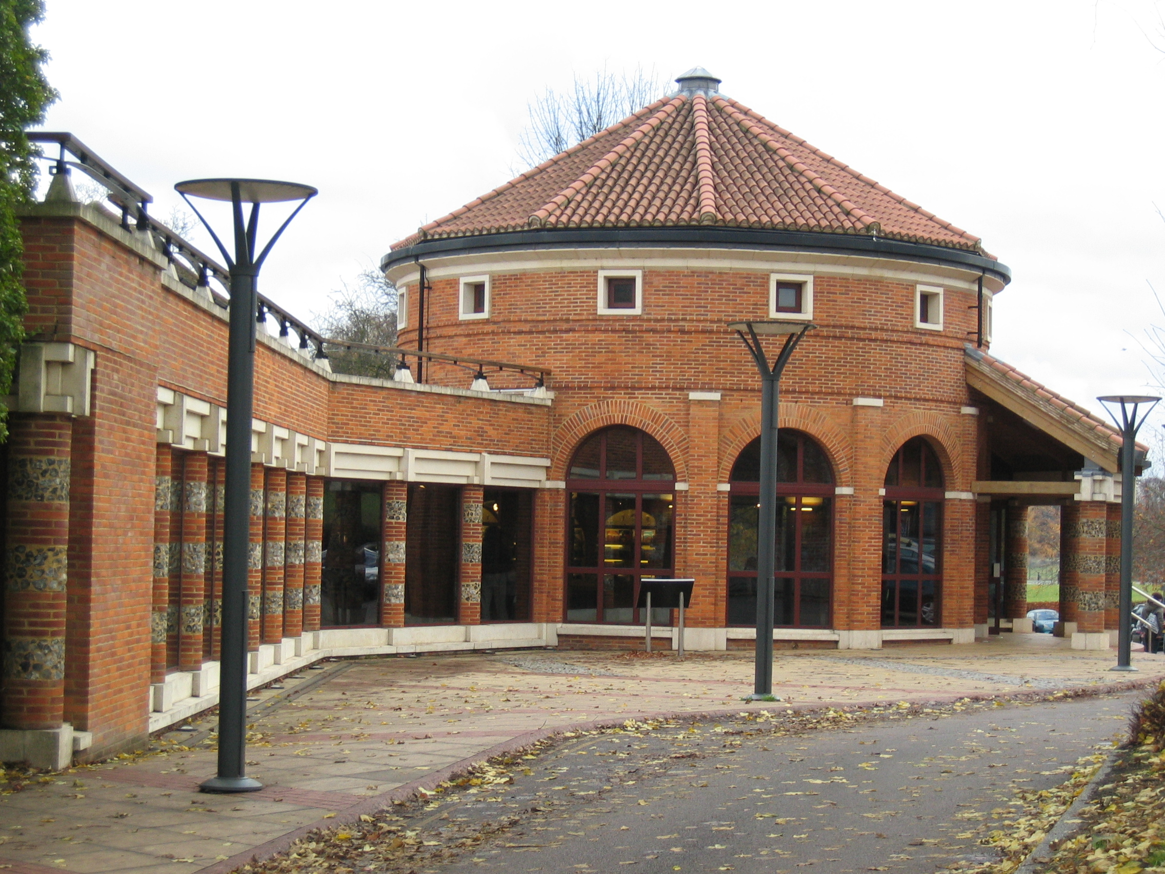 Verulamium Museum, St Albans.